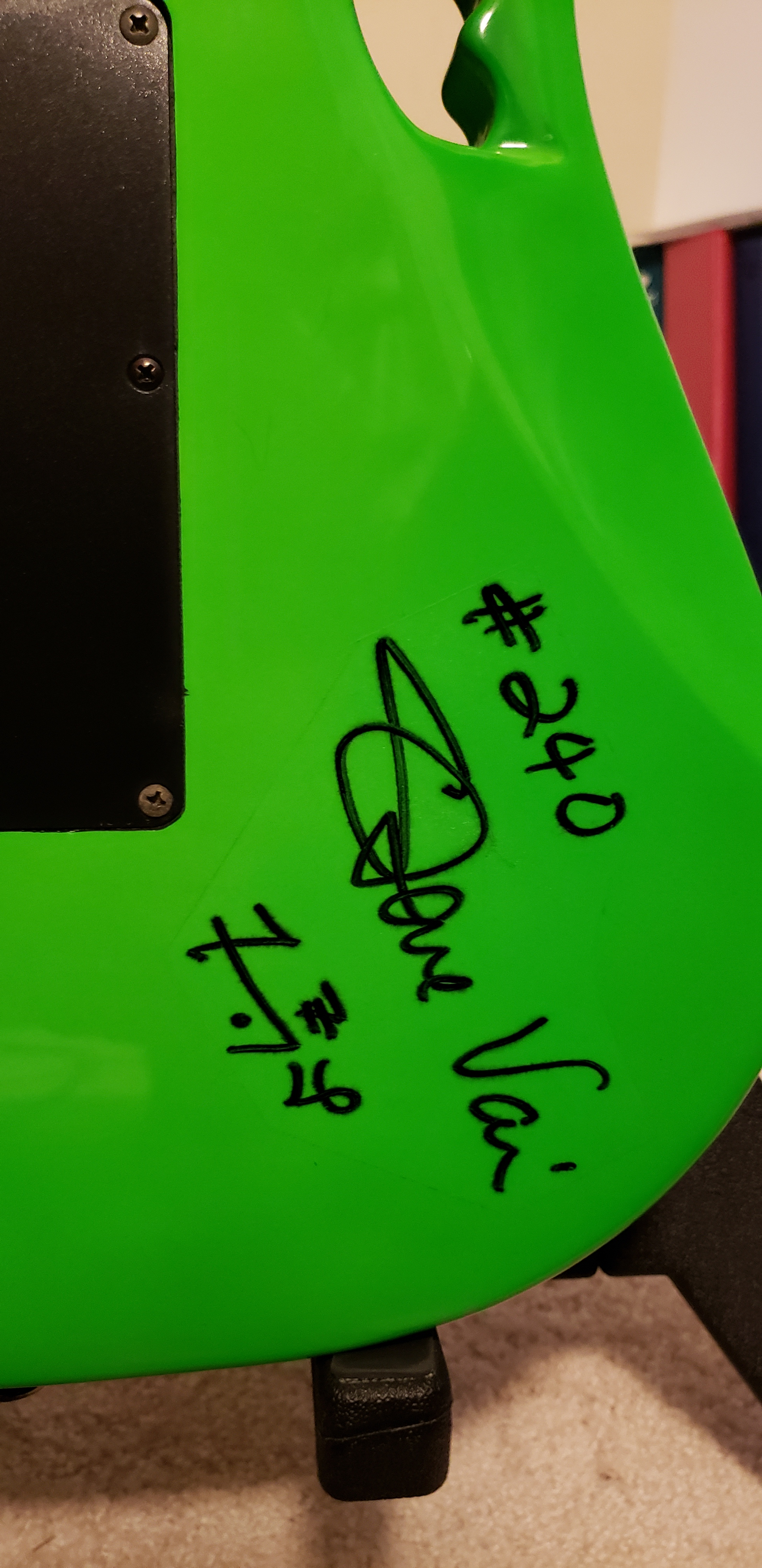 Picture of Vai signature/number and Glyph